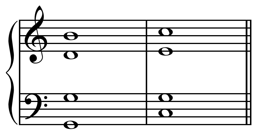 Perfect authentic cadence in C major.